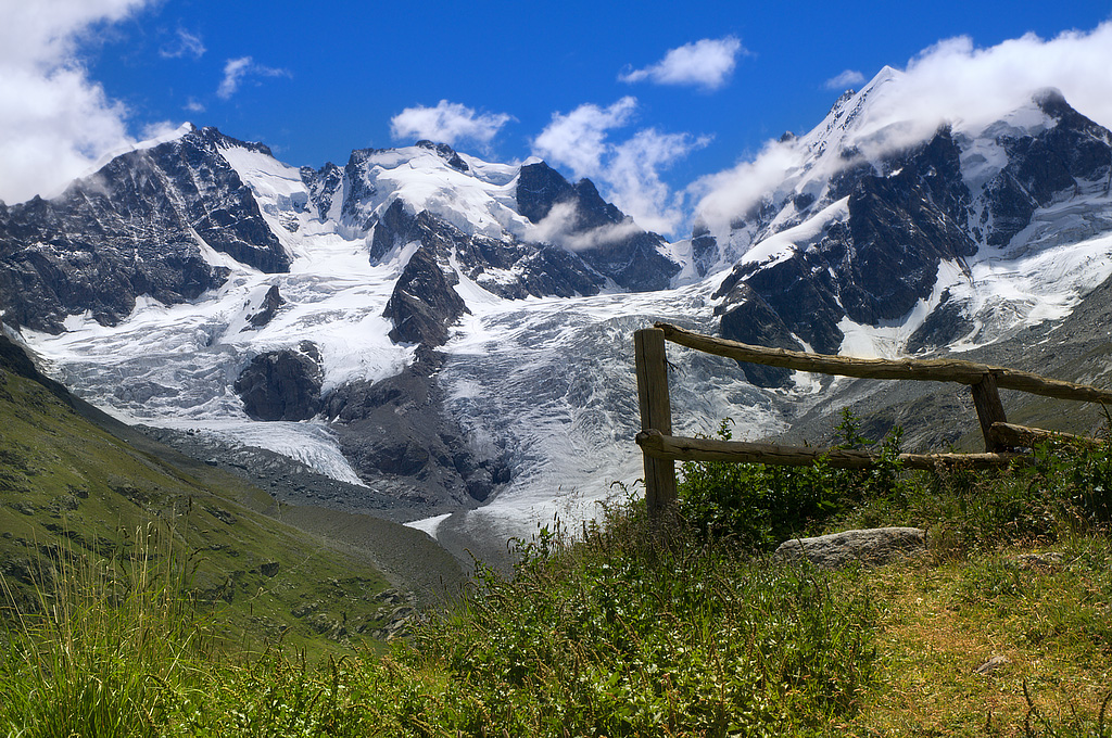 Piz Bernina, Piz Scercen and Piz Roseg (in the clouds).